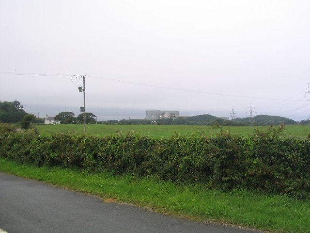 Pasture. This image looks slightly west of north from SH354928 across pasture land to the east of Tregele. Wylfa Power Station can be seen in the distance.